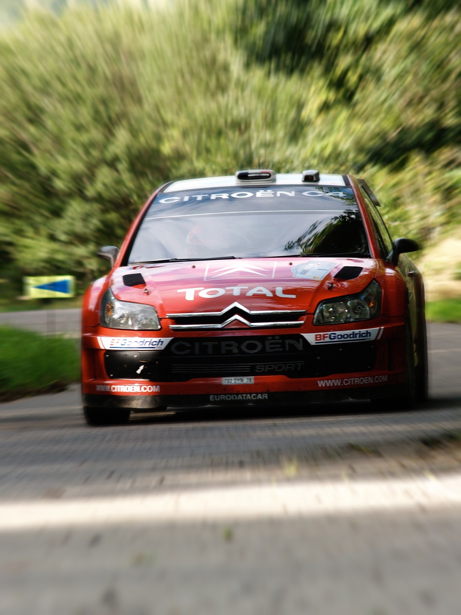 Sébastien Loeb in ADAC Deutschland Rallye 2007